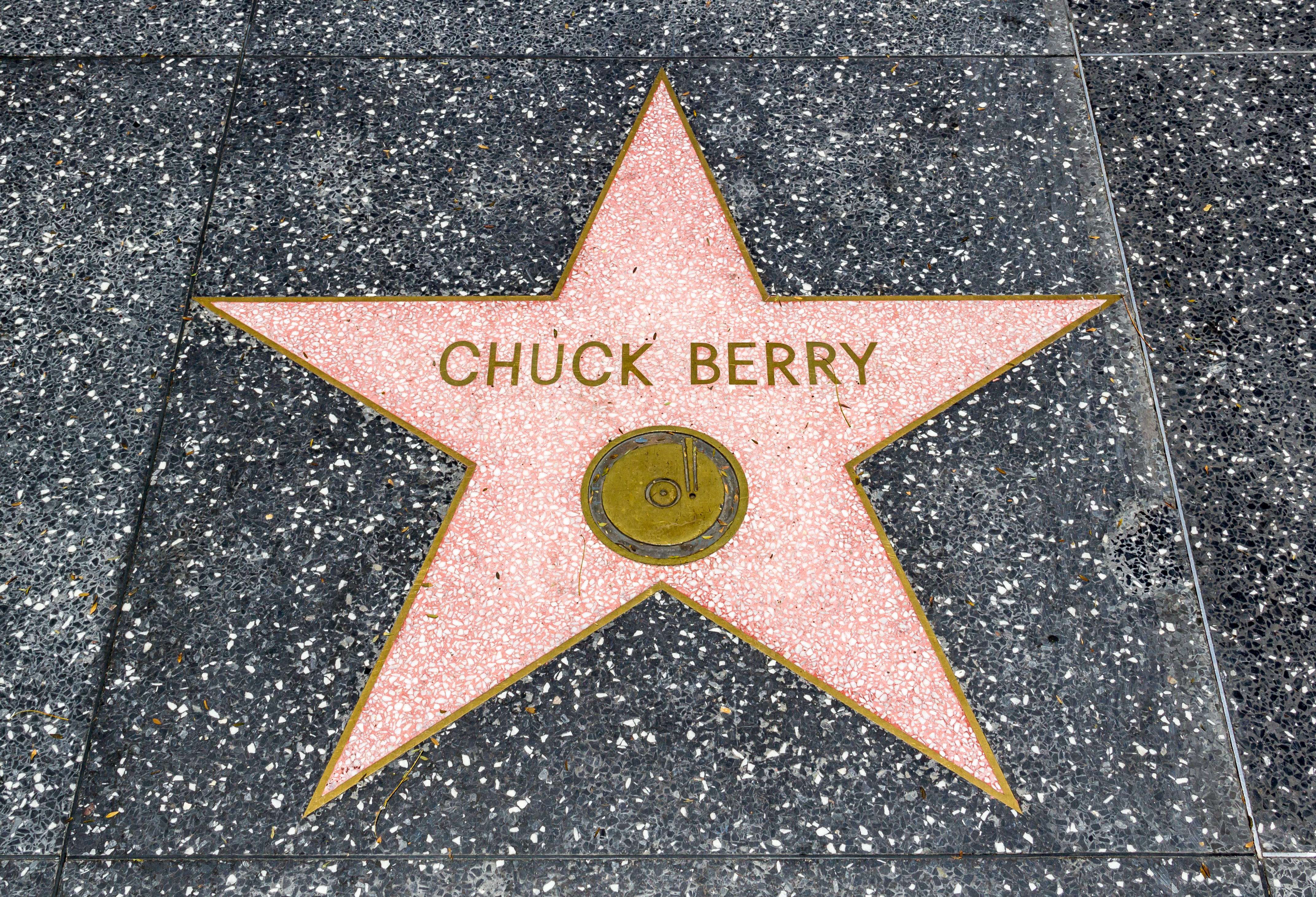 Star “Chuck Berry” at the Hollywood Boulevard in Los Angeles, California, USA